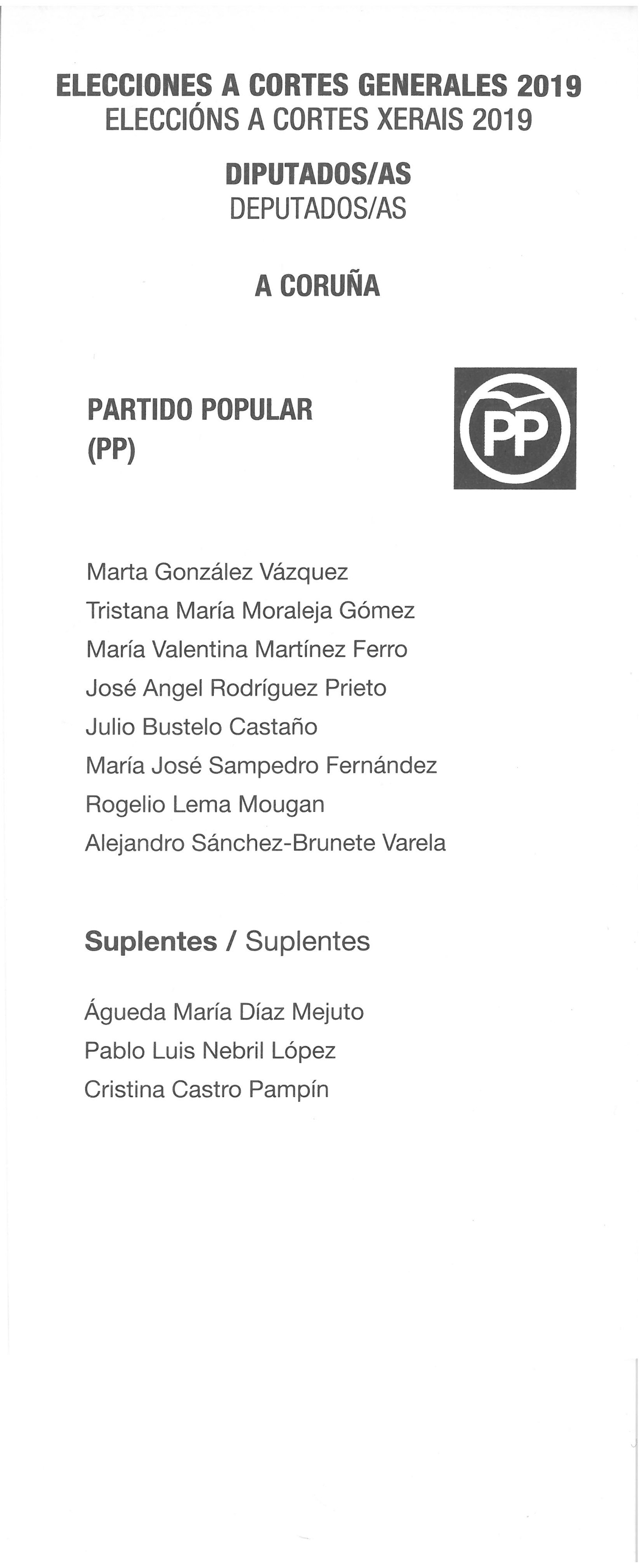 Ballot for Spanish General Elections of April 28th, 2019